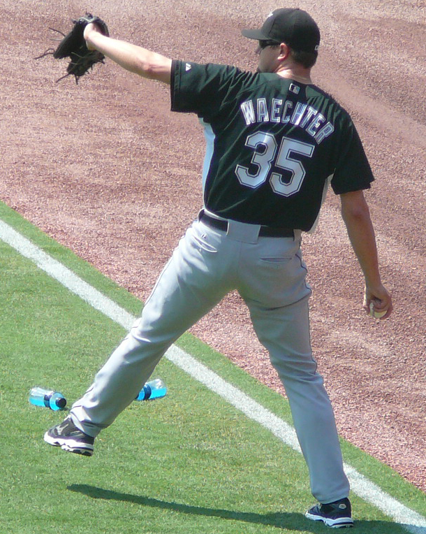 Please attribute photo with author's name if used somewhere other than Wikipedia. 18:16, 4 August 2008 . . Chrisjnelson . . 610×764 (547 KB)